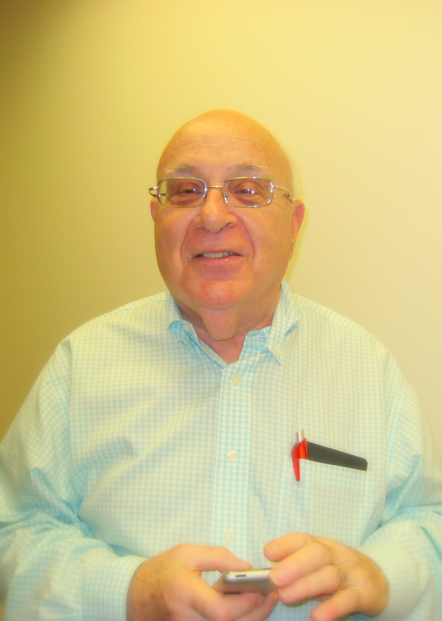 Prof. Dave Farber, currently at Carnegie Mellon University, Pittsburgh, Pennsylvania, USA. Photograph taken in May 2008, and posted with Dr. Farber's permission.